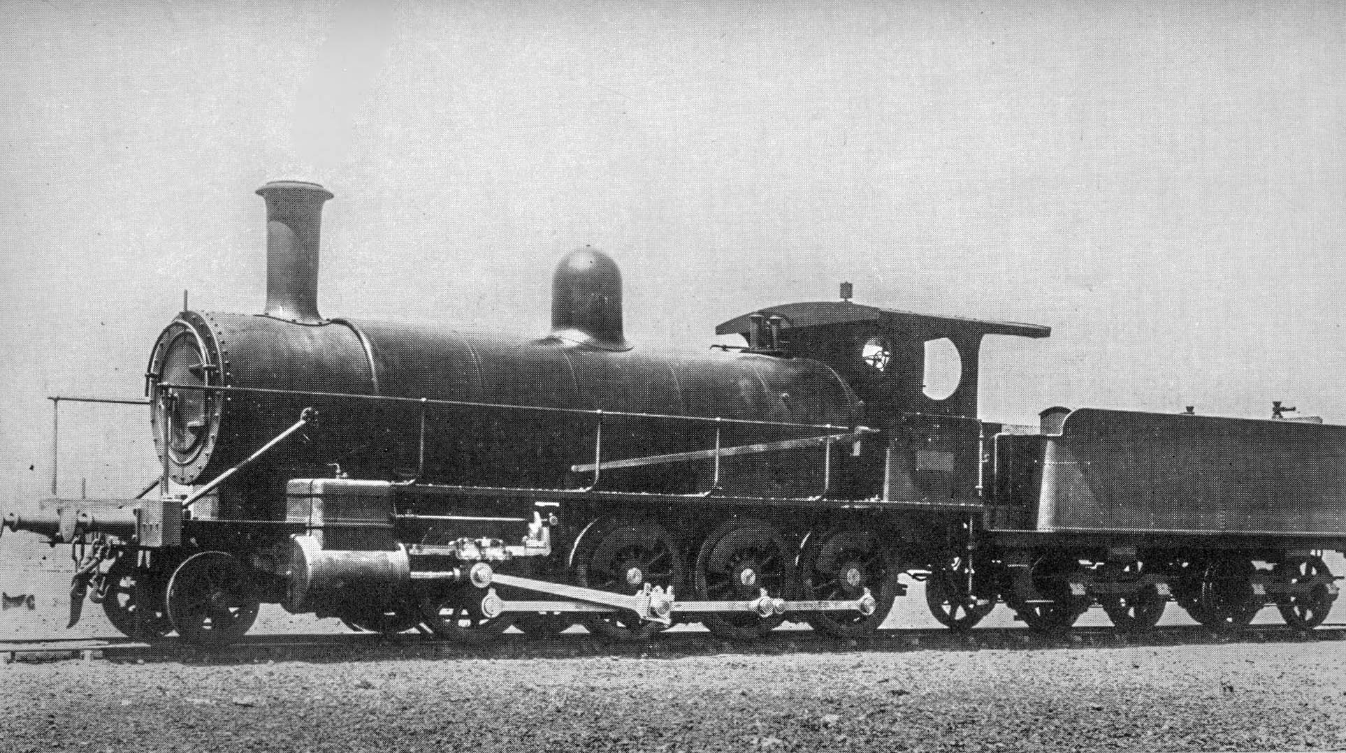 NSWGR J.522 Class Locomotive 2-8-0 Goods Type